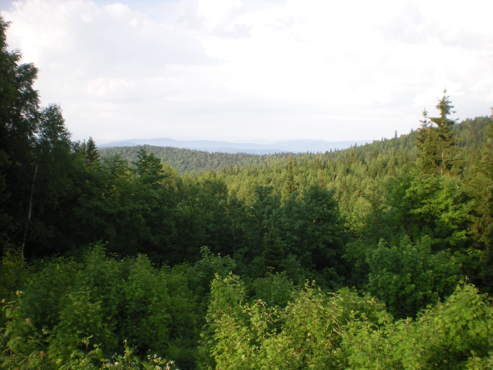 Some pictures from the Ural in Russia. Going from Ufa to Tscheljabinsk. Pictures taken recently by a friend.